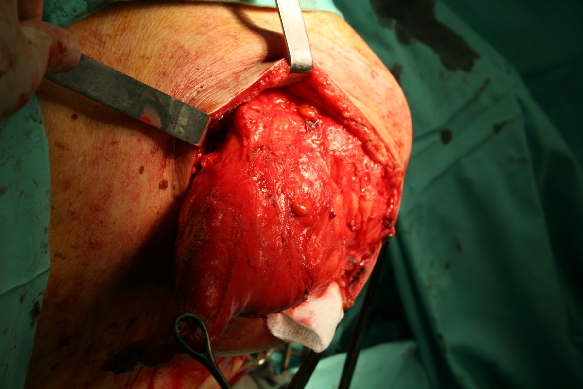 87 year old man with a liposarcoma. The tumor during the operation.